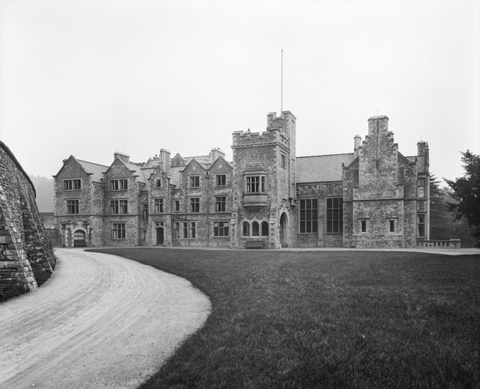 The north front of Grizedale Hall